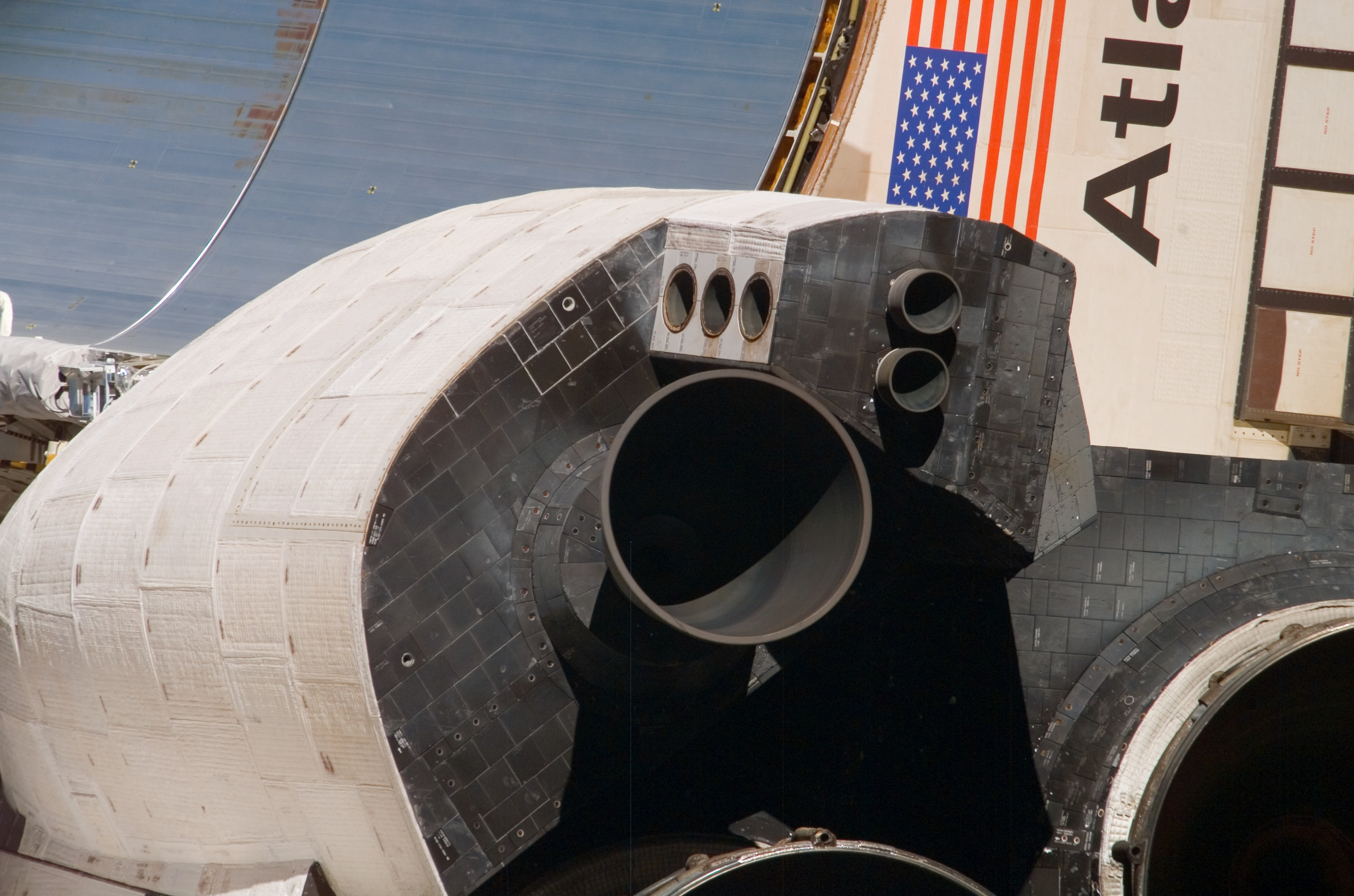 This view of part of the starboard wing and one of the Orbital Maneuvering System (OMS) pods of the Space Shuttle Atlantis was provided by an Expedition 13 crew member during a backflip maneuver performed by the approaching visitors to the International Space Station.